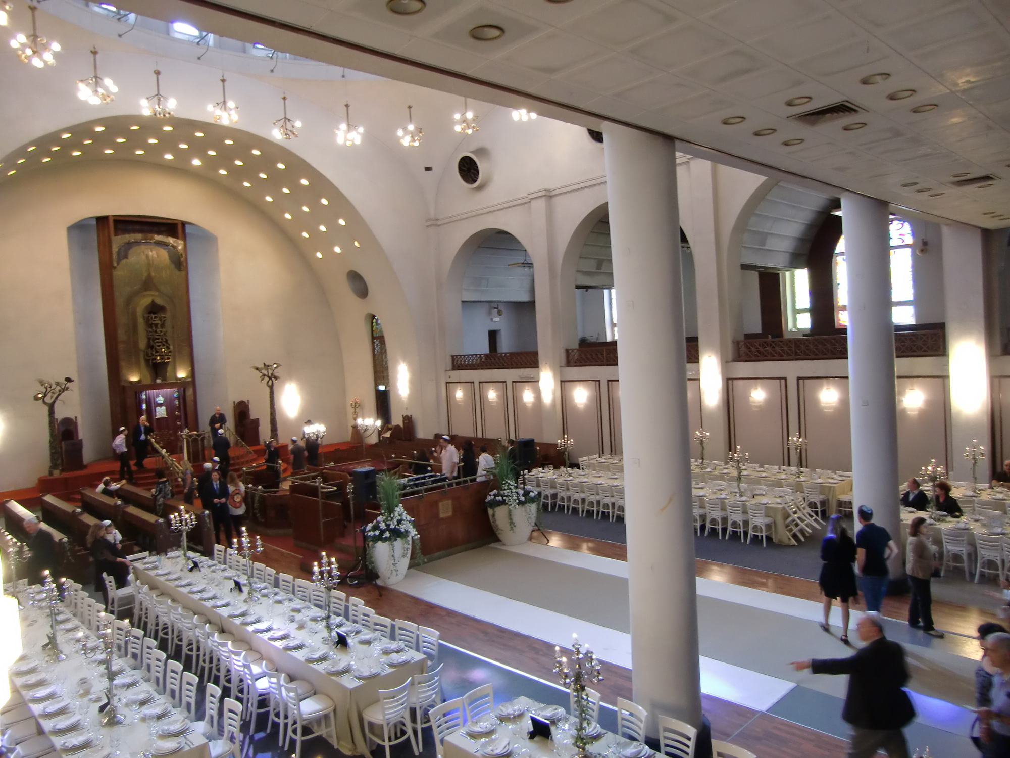 internal view